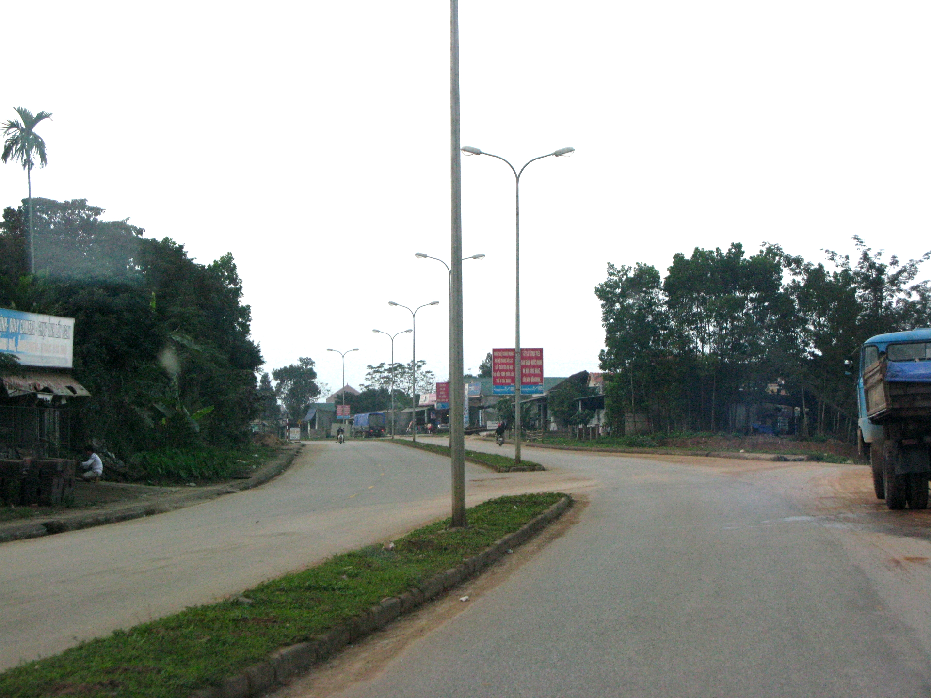 Huong Khe Town, Huong Son District, Ha Tinh Province, North Central Vietnam